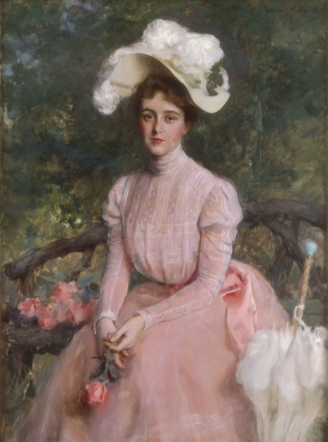 Oil on canvas Medium 51 1/2 H x 39 W Dimensions Gift of Stephen Van Rensselaer Crosby Credit 1957.70.20. Accession number